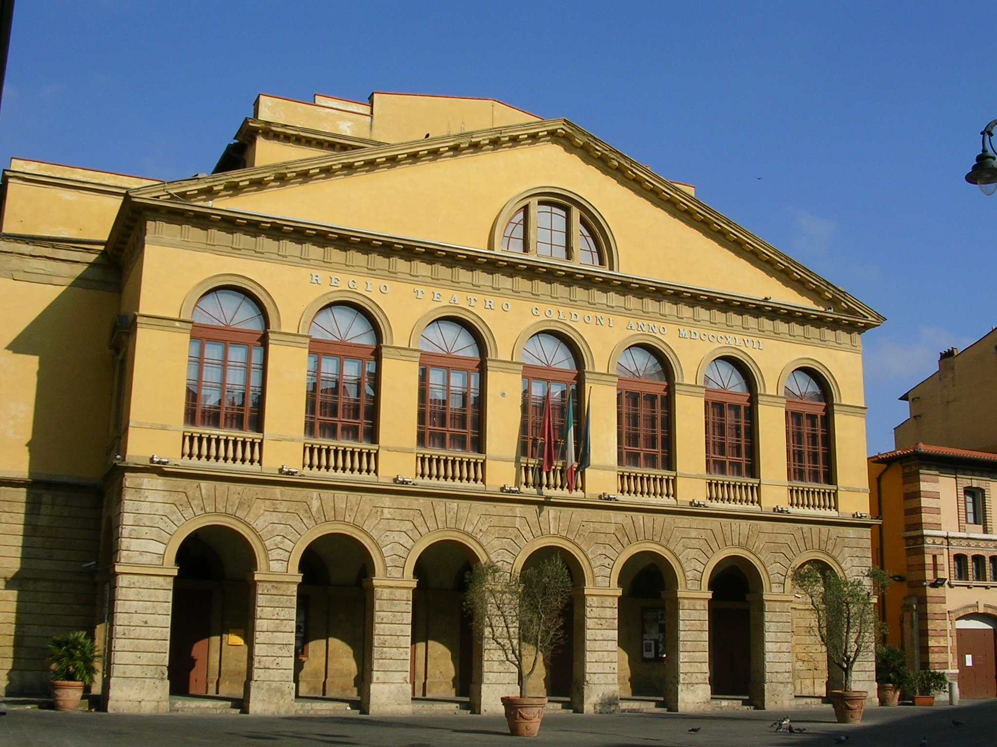 Front of the Goldoni theatre (Livorno, Italy).